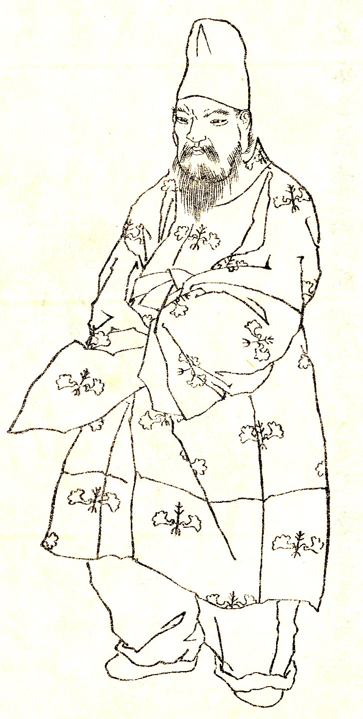 Fujiwara no Korekimi(藤原是公) was a Japanese politician and court noble in Nara period.